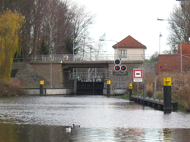 Canal lock at der Müritz-Elde-Wasserstraße in Neustadt-Glewe, district Ludwigslust-Parchim, Mecklenburg-Vorpommern, Germany